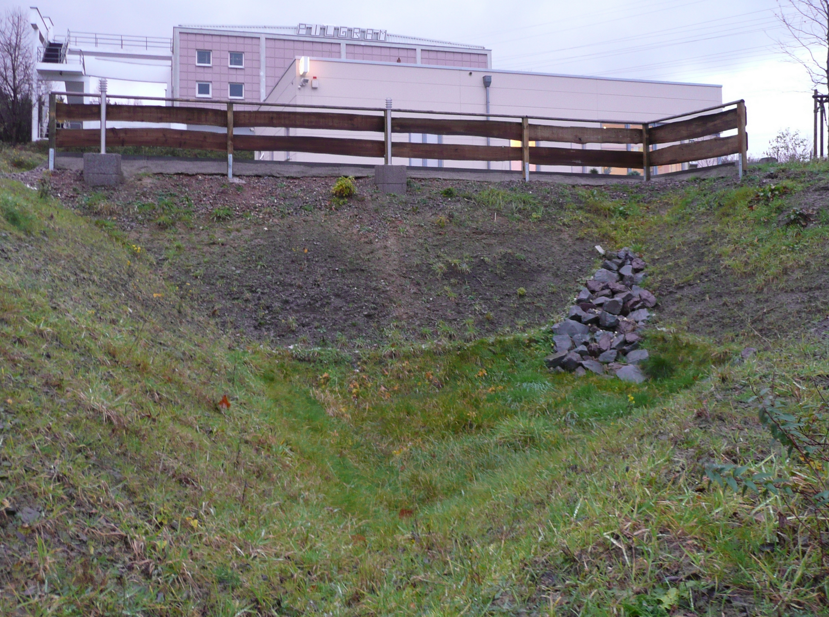 Infiltration basin to collect the rainwater of a factory in Herdecke